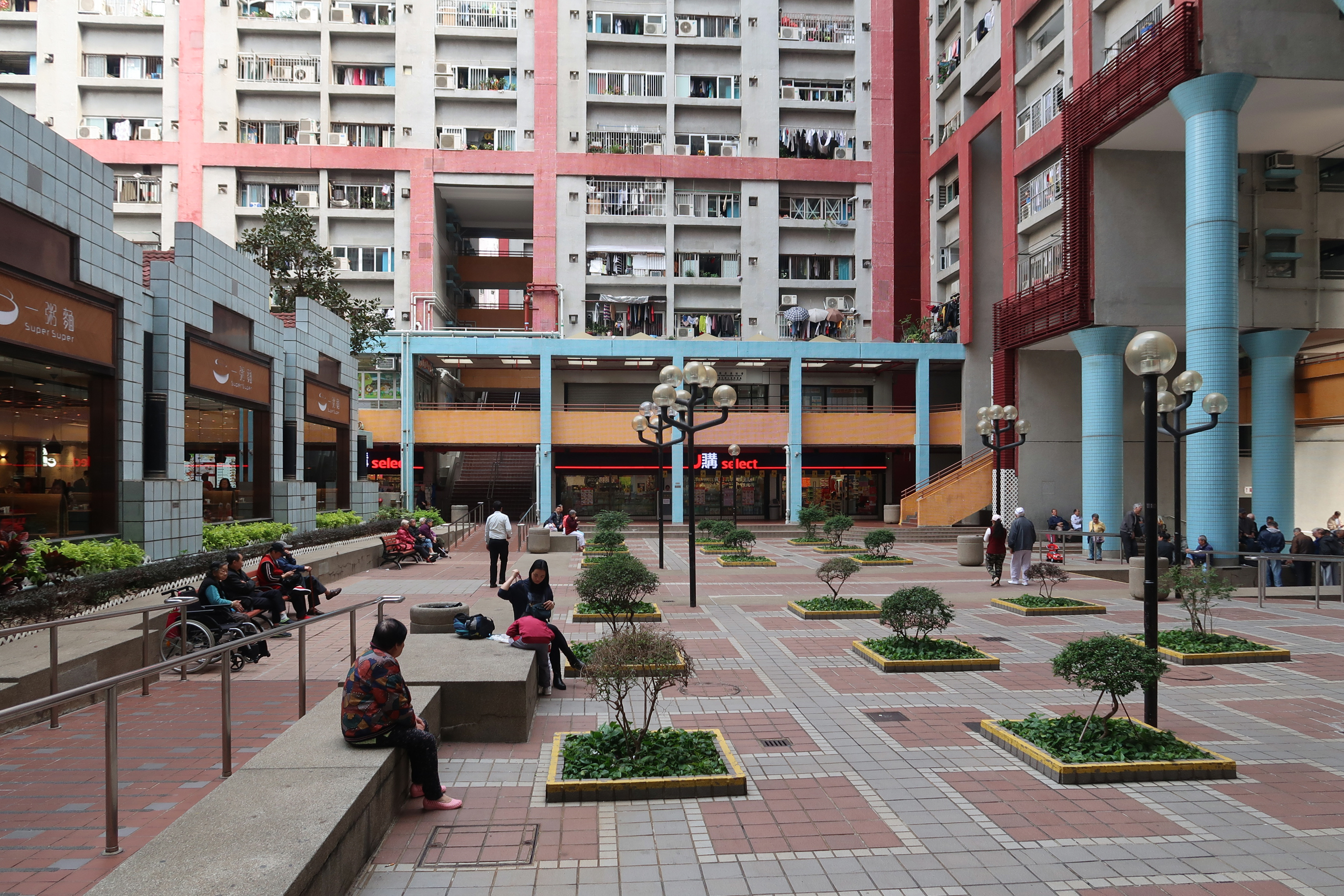 Lotus Tower Plaza